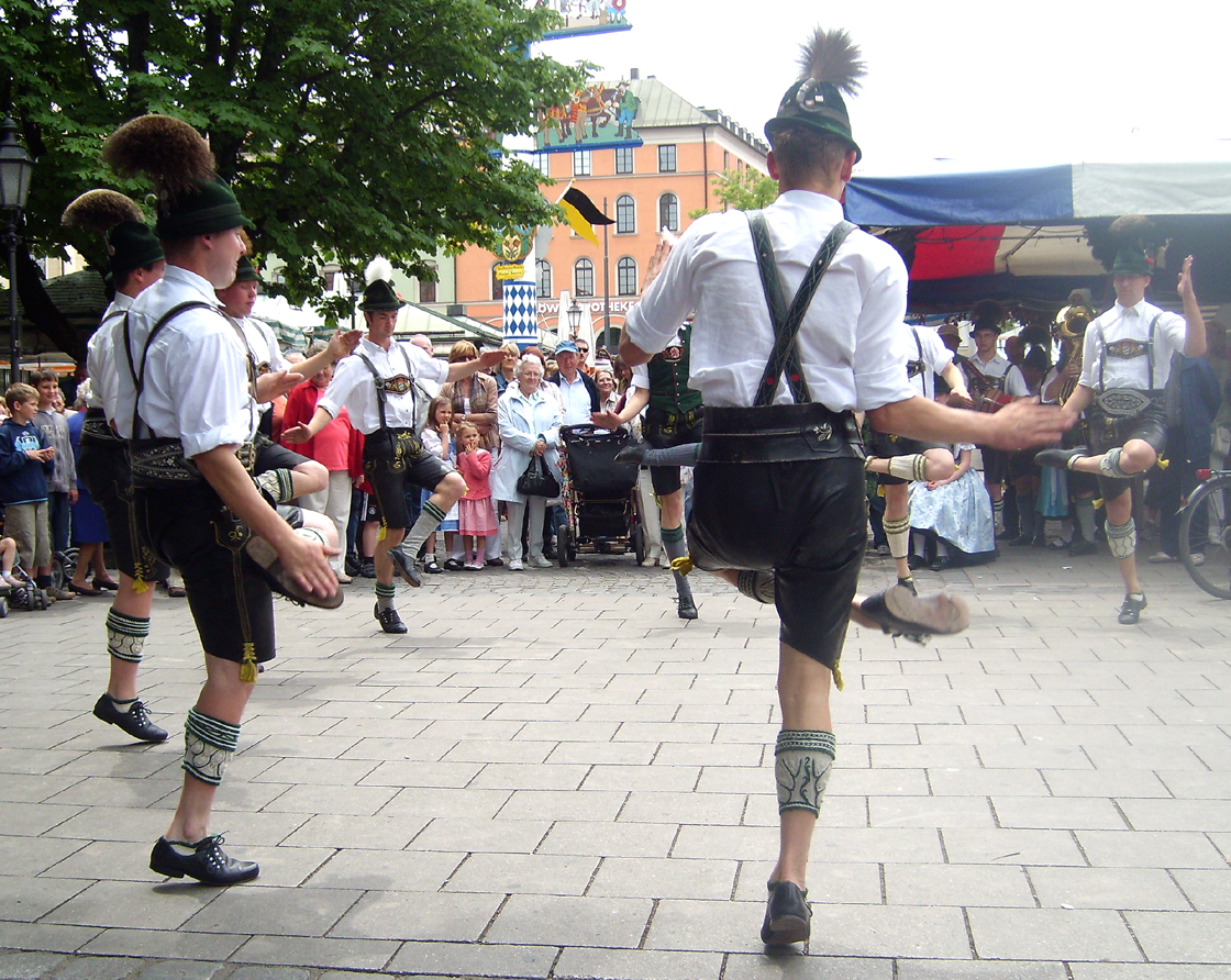 Schuhplattler is a traditional Austro-Bavarian folk dance evolved from the Ländler.